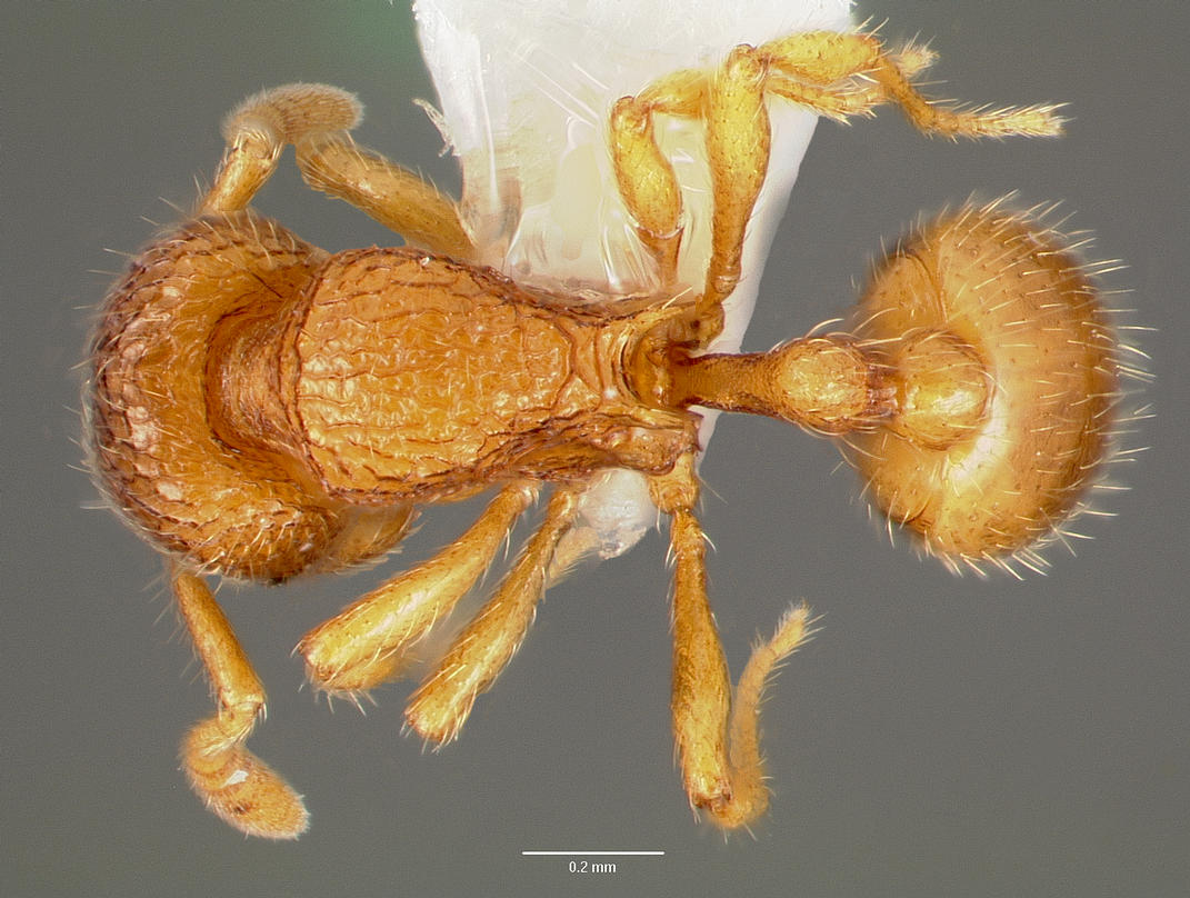 Dorsal view of ant Rogeria creightoni specimen casent0006067.